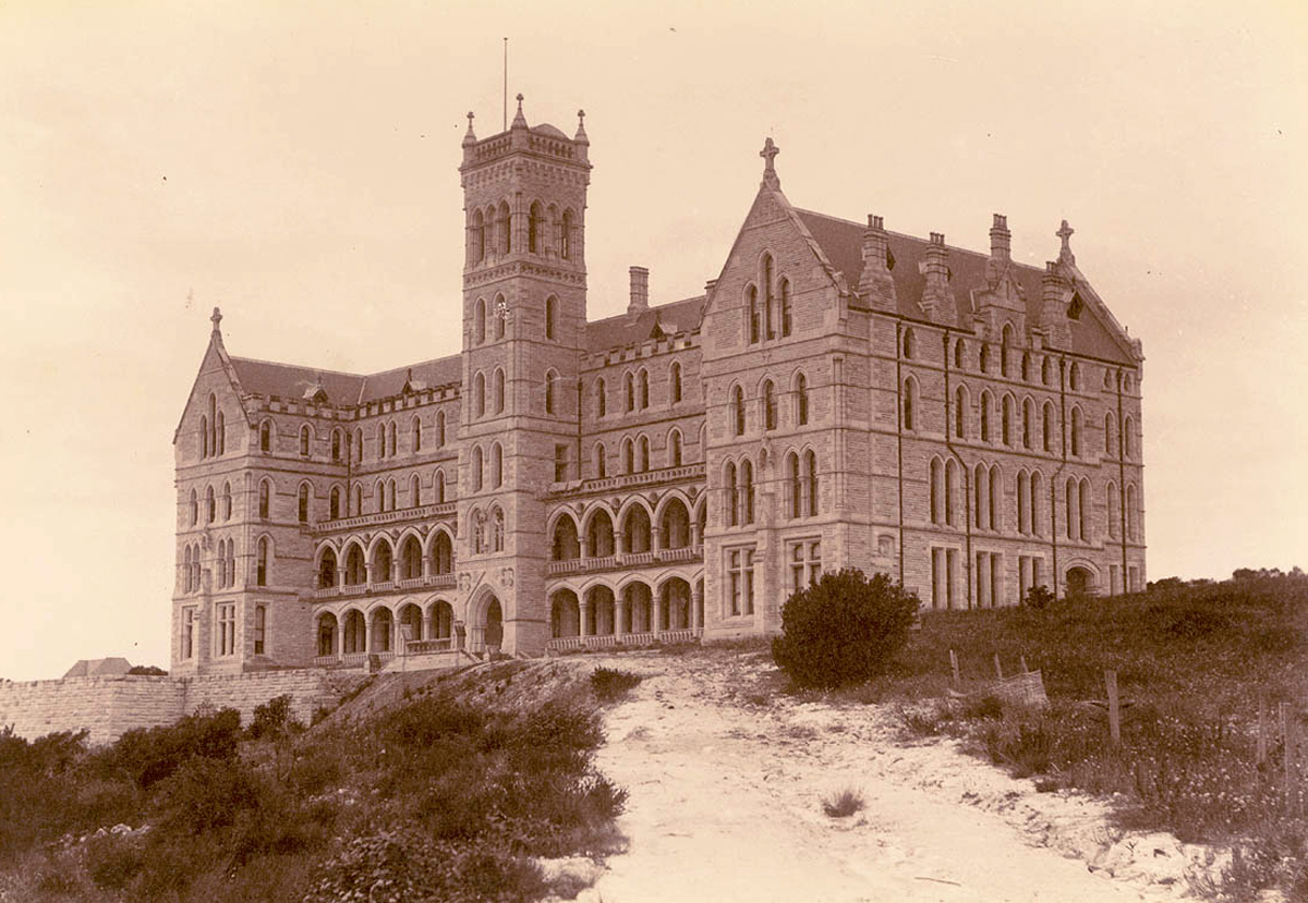 A view of St Patrick's Seminary, Manly, Sydney, circa 1900. This is a retouched picture, which means that it has been digitally altered from its original version. Modifications: Contrast improved, cropped slightly..